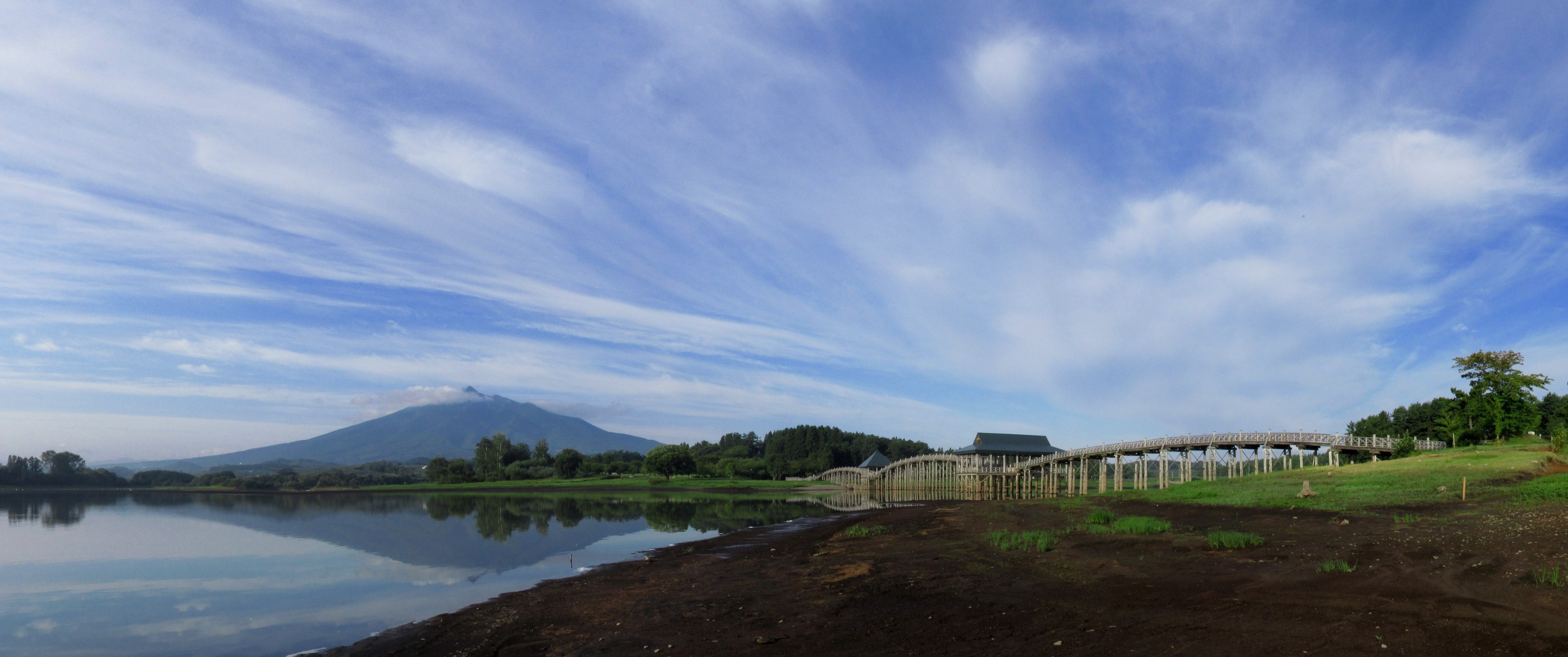 Tsurunomaihashi Bridge on Lake Tsugarufujimi in Aomori Prefecture, Japan